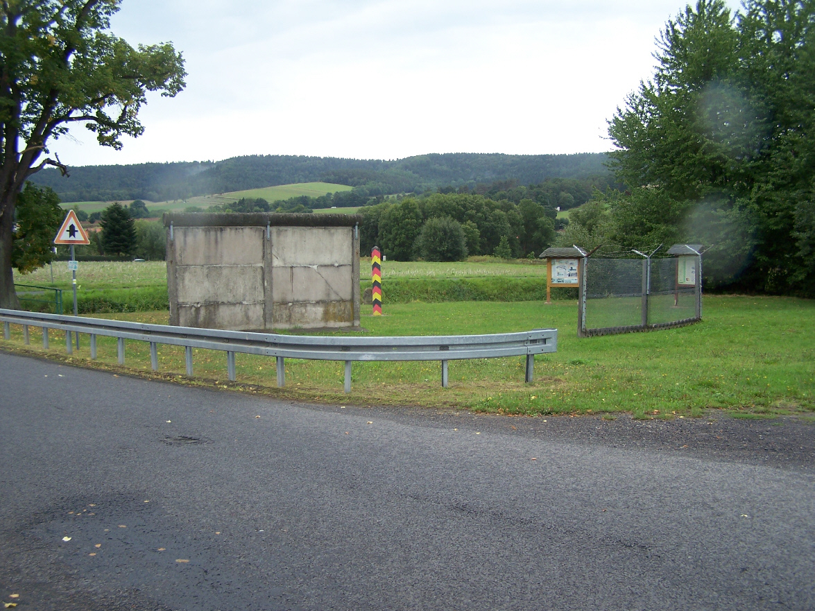 Monument of the German division between Kleinensee and Grossensee.